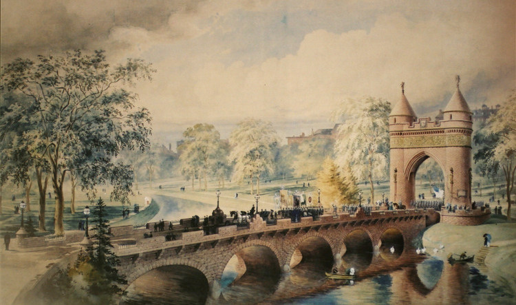 Park River Bridge and Soldiers and Sailors Arch in Hartford, Connecticut (Museum of Connecticut History) Since the date of the painting, the river has been culverted.